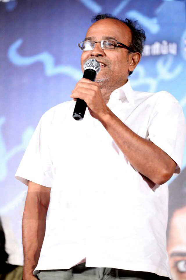 Editor B Lenin at the Ramanujan Movie Press Meet